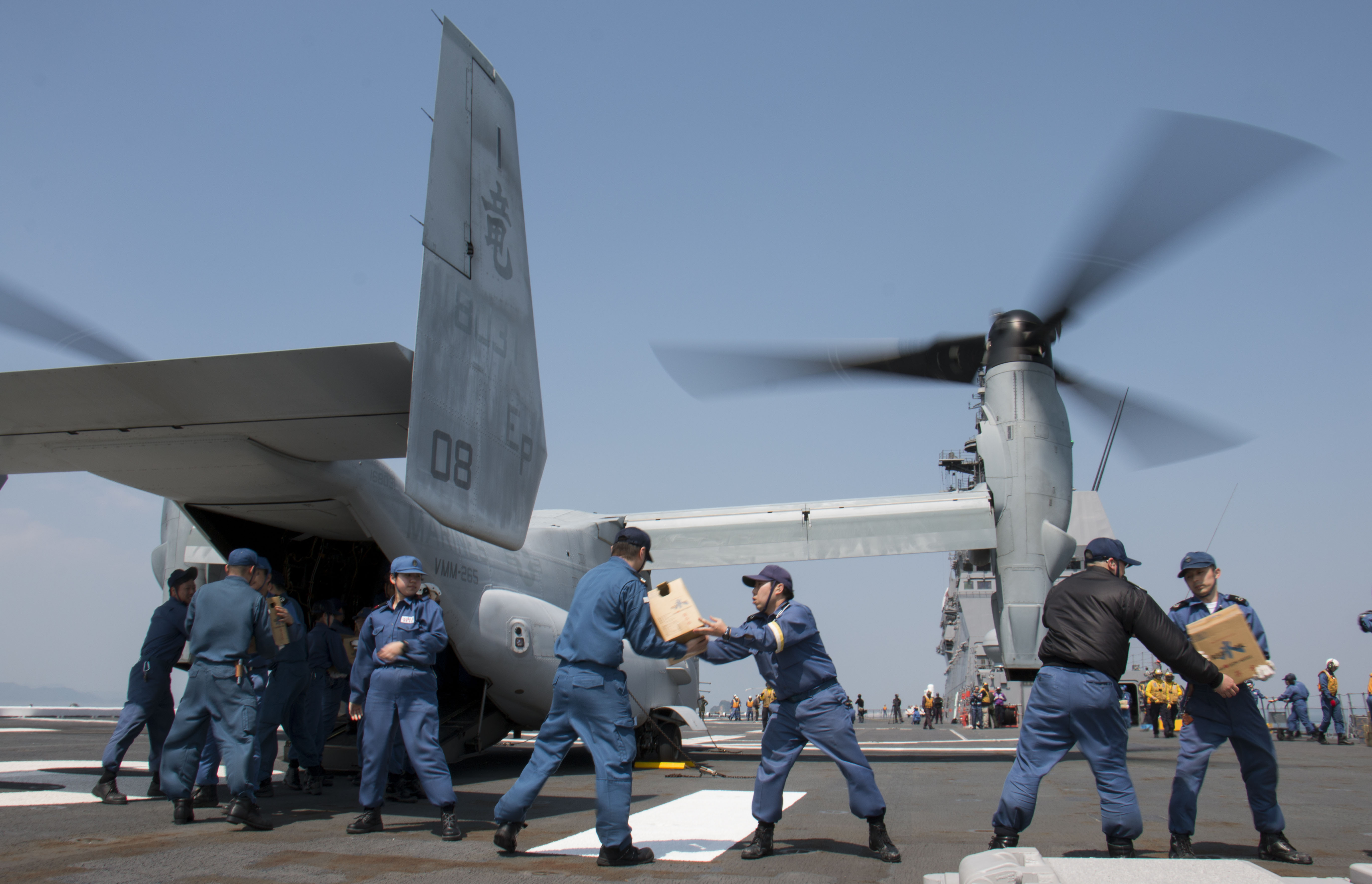 KUMAMOTO, Japan (April 19, 2016) Members of the Japan Maritime Self-Defense Force load supplies onto an MV-22B Osprey aircraft from Marine Medium Tilitrotor Squadron (VMM) 265 attached to the 31st Marine Expeditionary Unit in support of the Government of Japan's relief efforts following earthquakes near Kumamoto. The long-standing alliance between Japan and the U.S. allows U.S. military forces in Japan to provide rapid, integrated support to the Japan Self-Defense Force and civil relief efforts. (U.S. Navy Photo by Mass Communication Specialist 3rd Class Gabriel B. Kotico/Released) 160419-N-AE545-342 Join the conversation: navylive.dodlive.mil